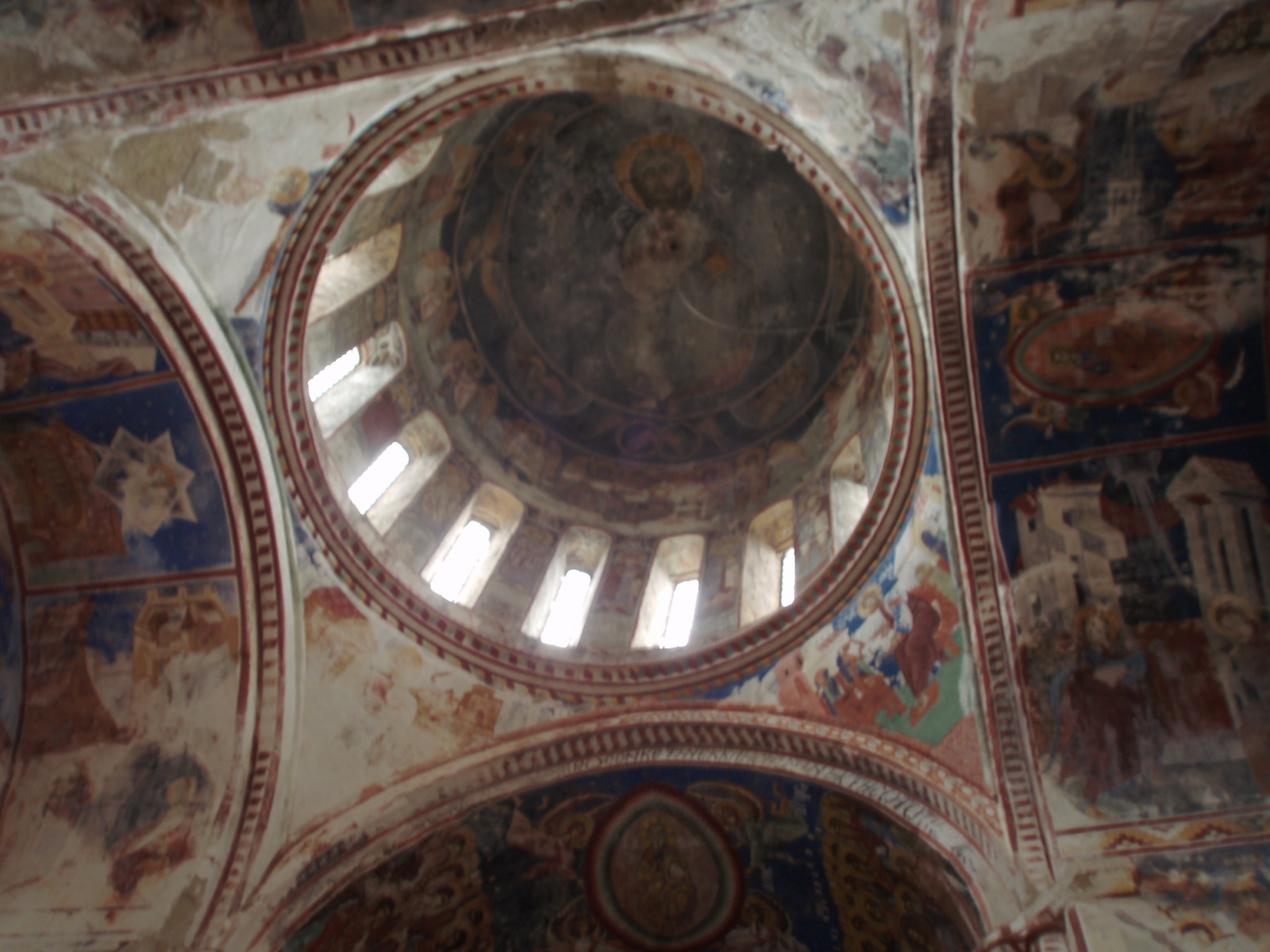 Gelati Monastery